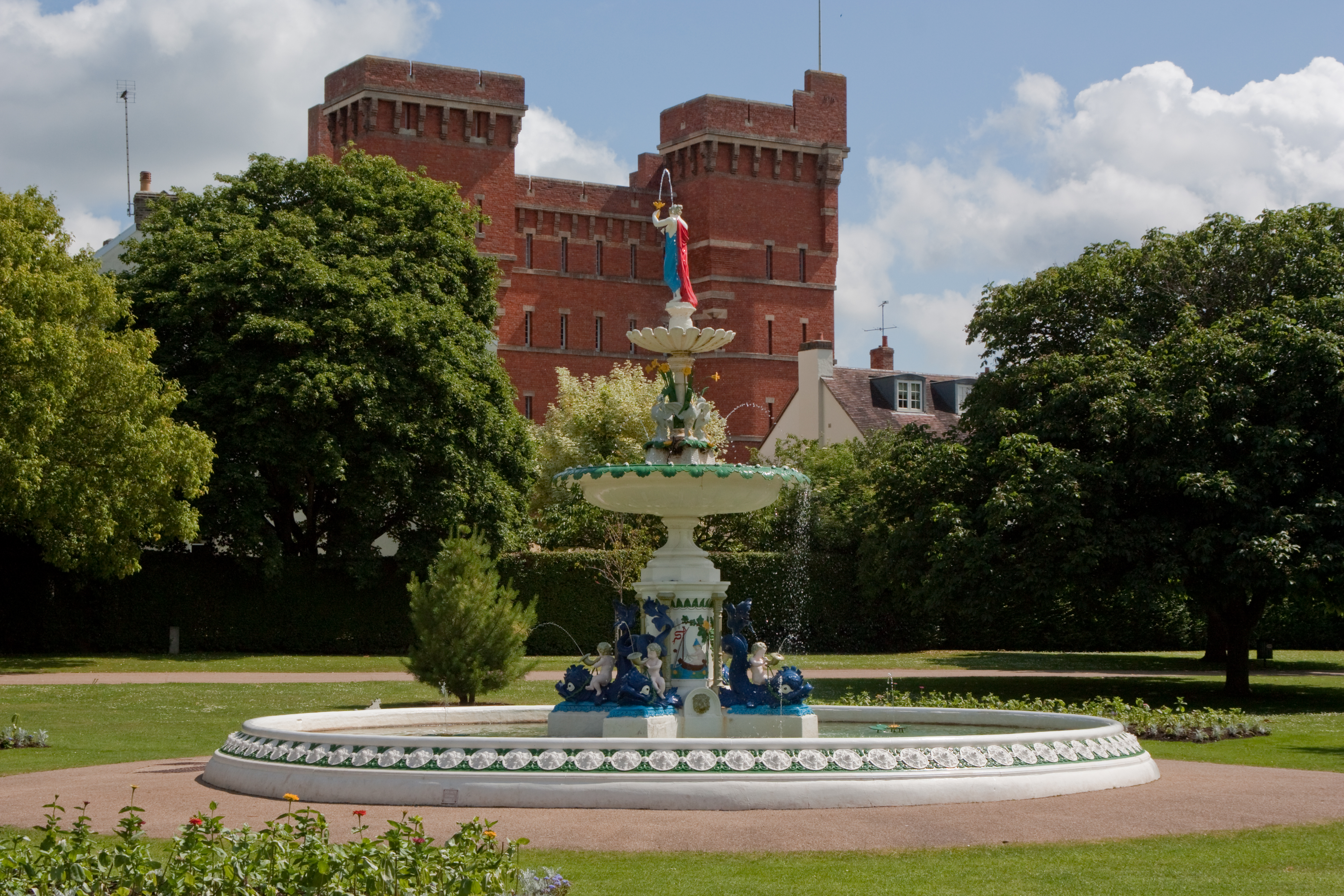 Unveiled in 1907, this brightly painted fountain was commissioned as a memorial to the late Queen Victoria. It stands in Vivary Park, Taunton, Somerset.